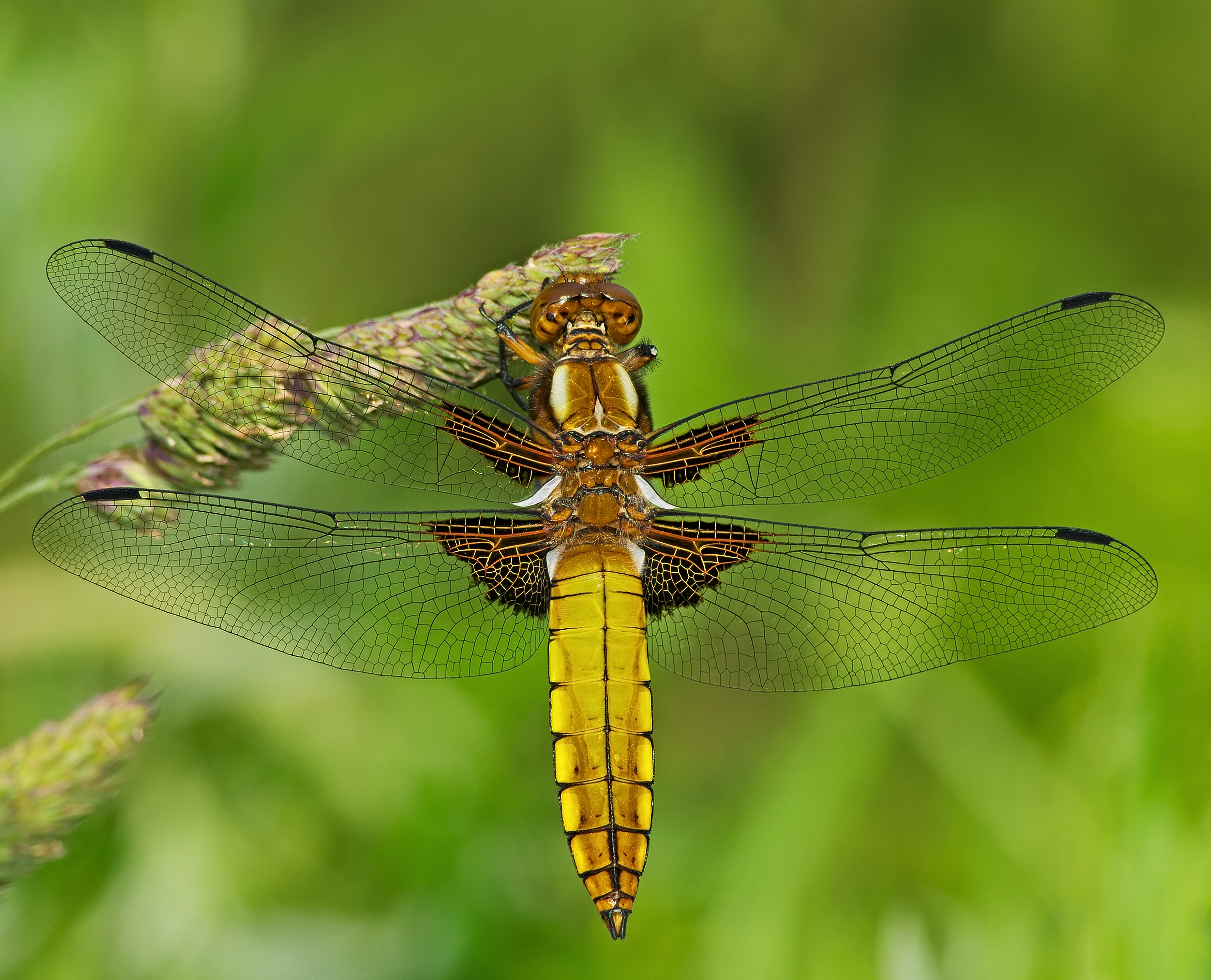 Broad-bodied chaser - Libellula depressa, young male. Taken in Mannheim, Kirschgartshäuser Schläge by the Bruchgraben, Baden-Württemberg, Germany.